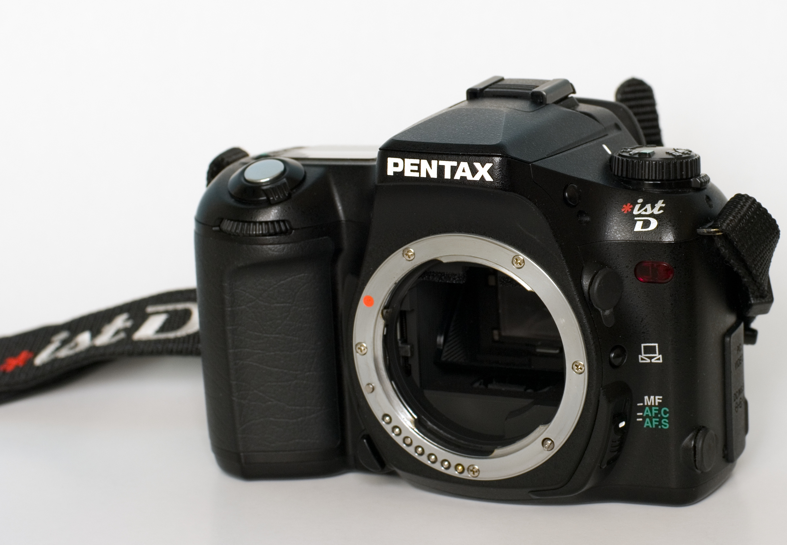 Pentax *istD DSLR photo camera body.